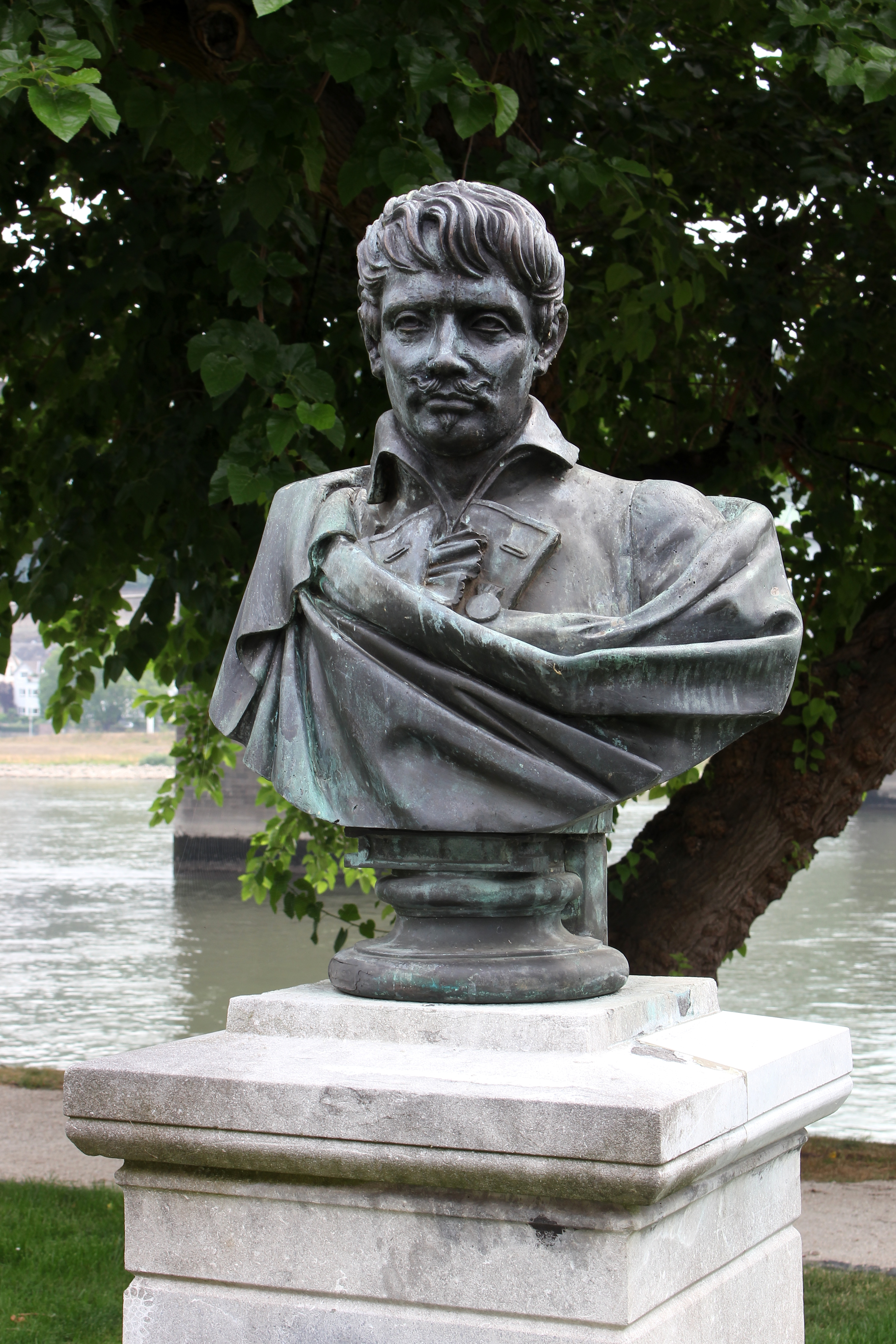 Replica of the bronze bust Max von Schenkendorf of Stefan Reckenthäler, Montabaur, cast: Kai-Uwe Pelikan, Bendorf, in 2013. The original of 1861 in the Koblenz Rhine park had been destroyed in 2012.